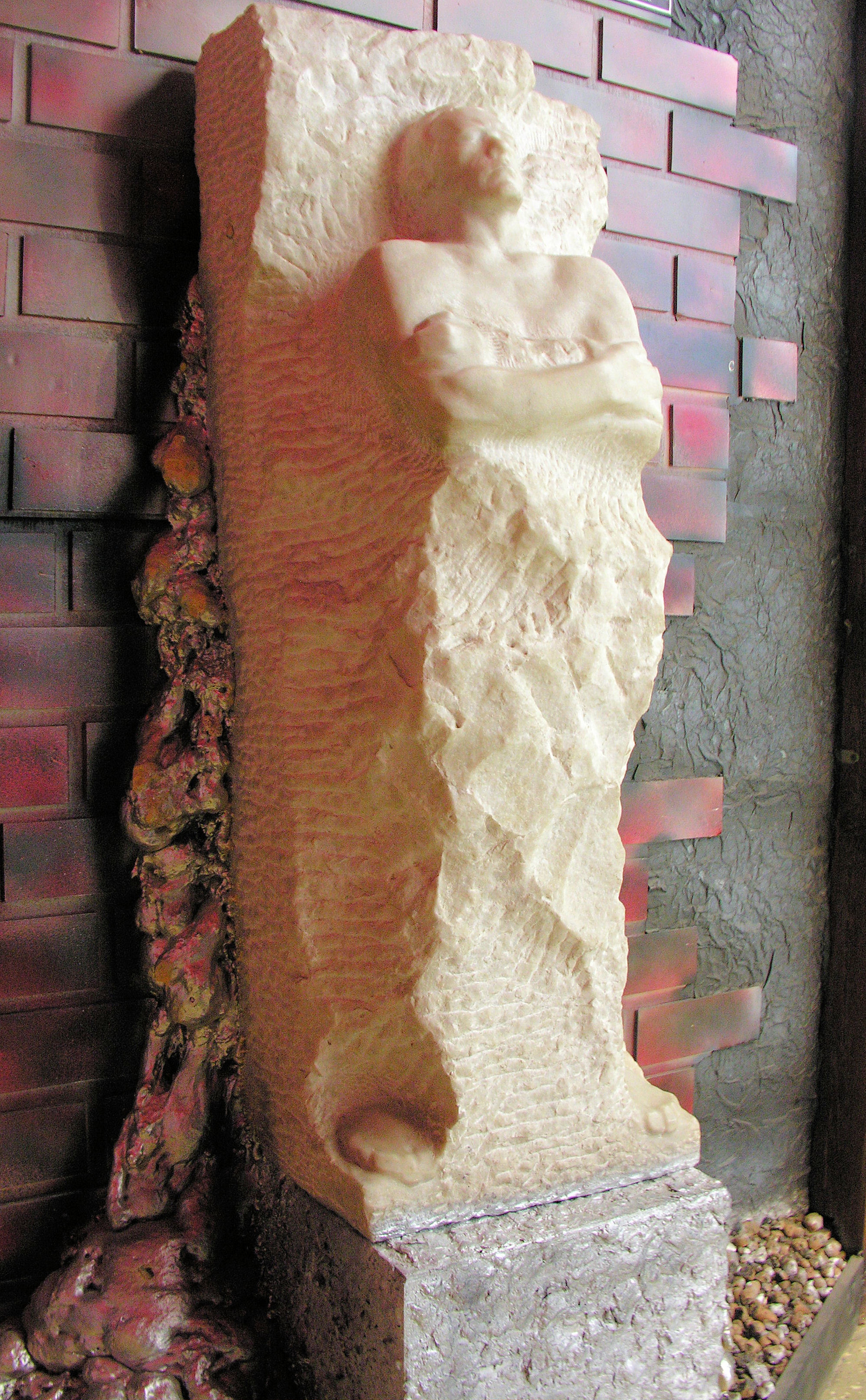 Mini copy of the monument of Dmitry Karbyshev located at the place of the Austrian concentration camp Mauthausen.